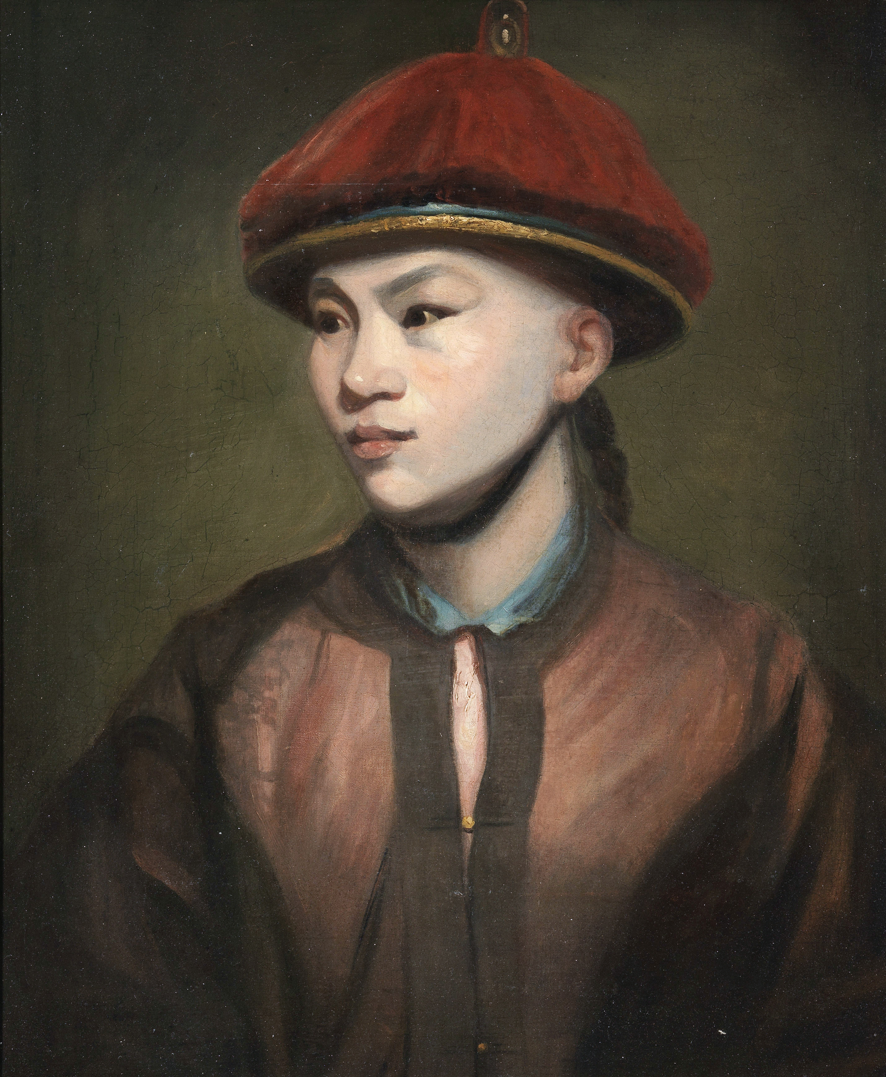 Wang Y-Tong oil on canvas 60.7 x 50 cm